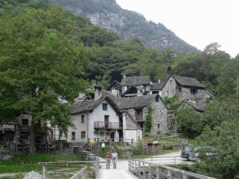 Traditional stone houses near Maggia in Canton Ticino, Switzerland.